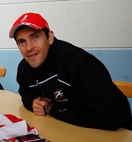 Hockey player Pavel Datsyuk in Viernheim (Germany)